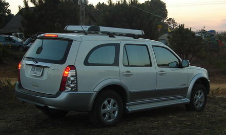 Isuzu MU-7 -- tail -- Phetchabun, Thailand